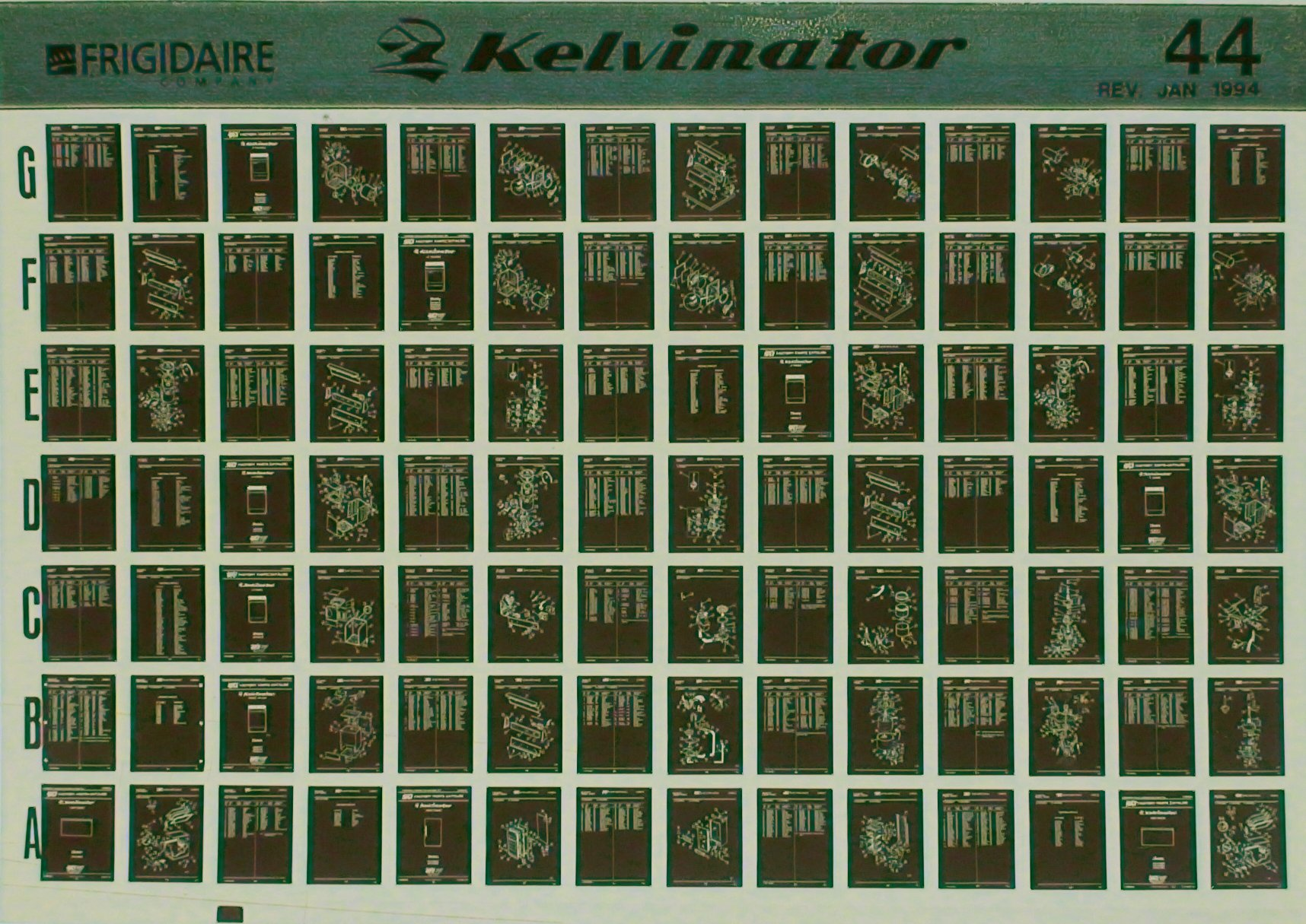 A 16mm jacket dupe microfiche